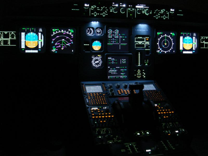 Night Flight in a home built Airbus Simulator Cockpit